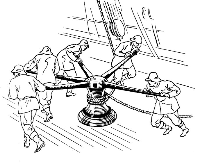 line art drawing of capstan.